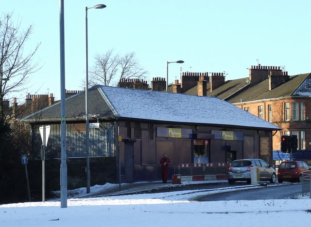 Former Strathbungo railway station building On Nithsdale Road at Nithsdale Street. Now a shop. The station closed in 1962, but the line is still open.